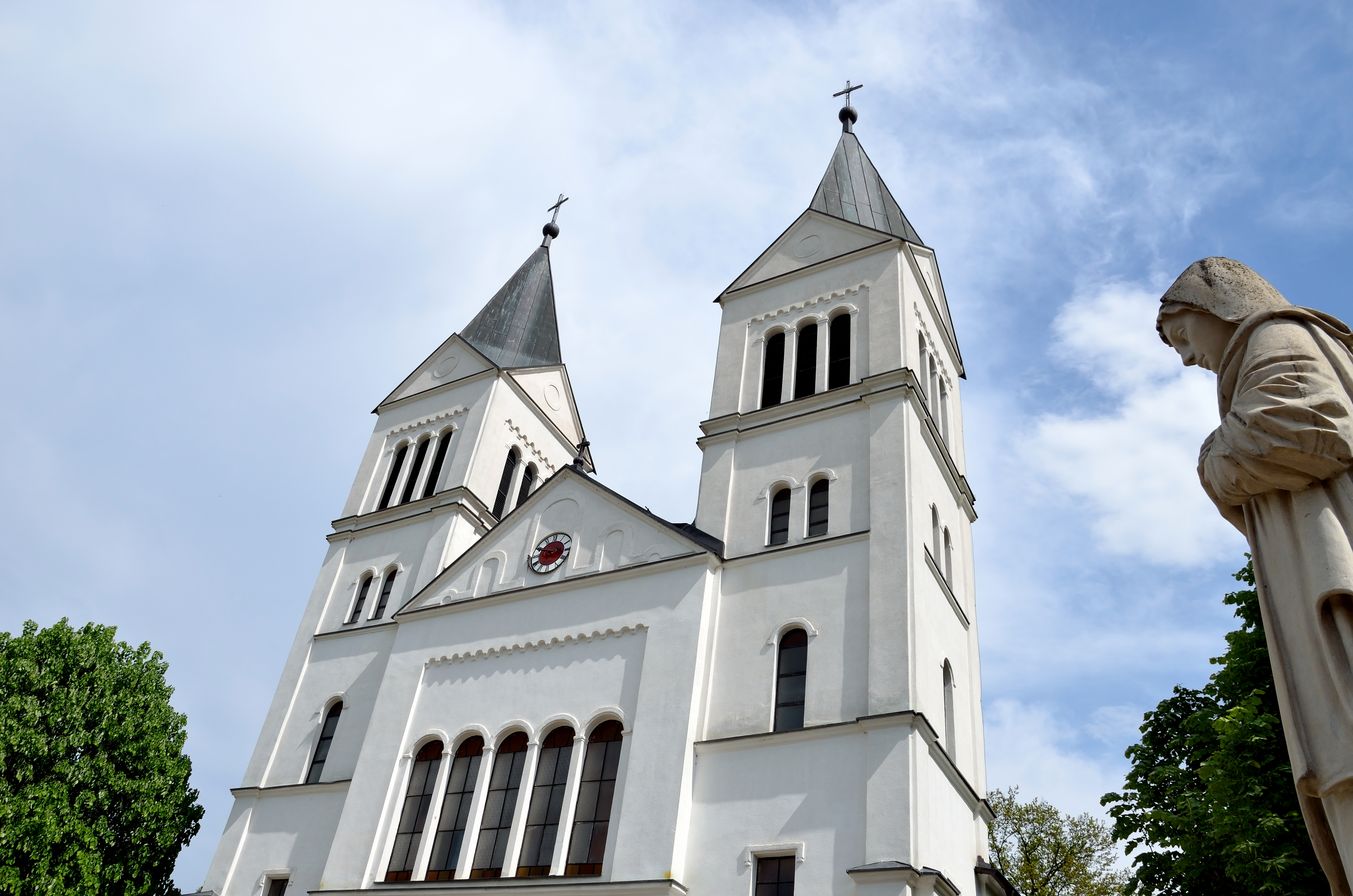 Fantastic church